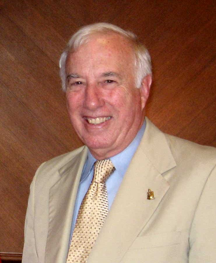 Clayton Daniel Mote, Jr., in his office at the University of Maryland, College Park.